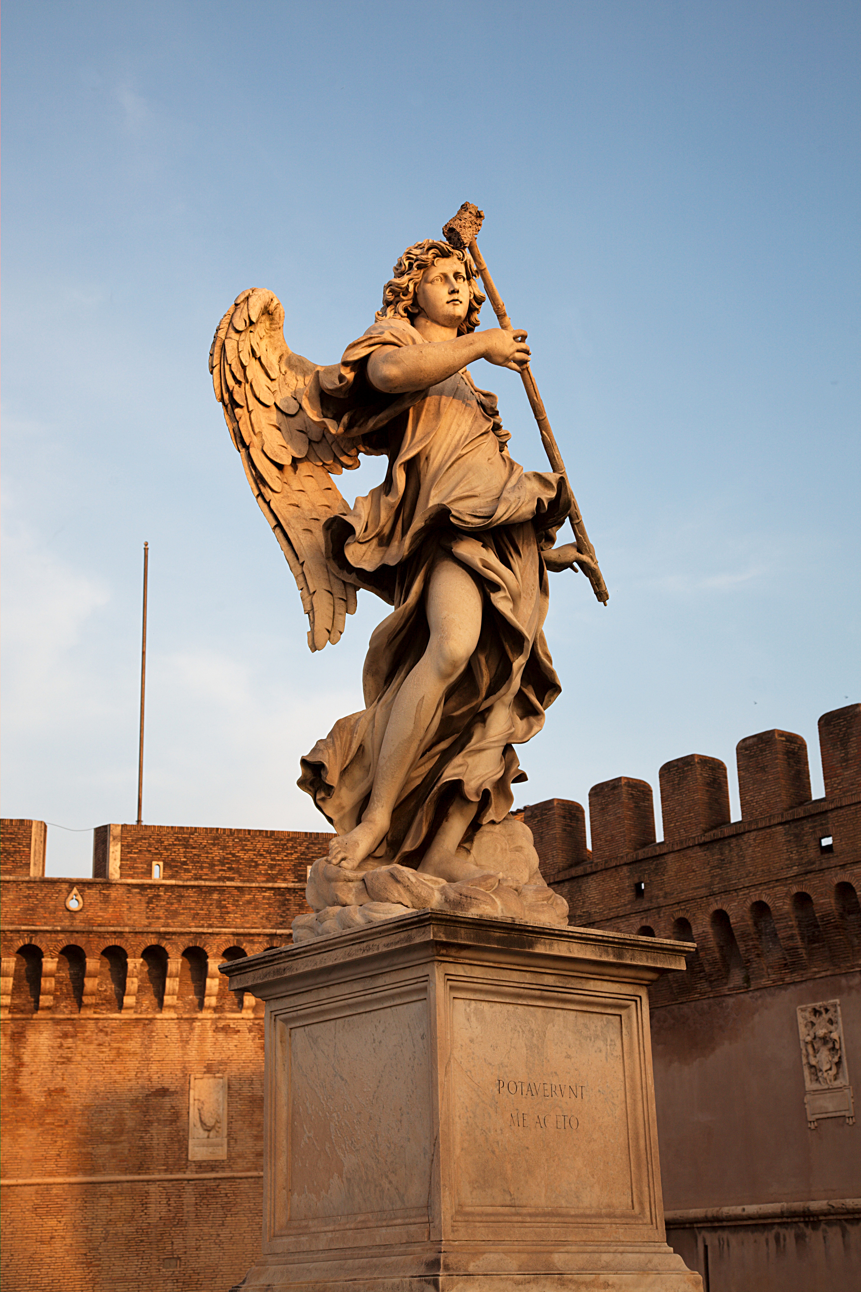 Angel on the western side of Ponte_Sant'Angelo during sunrise